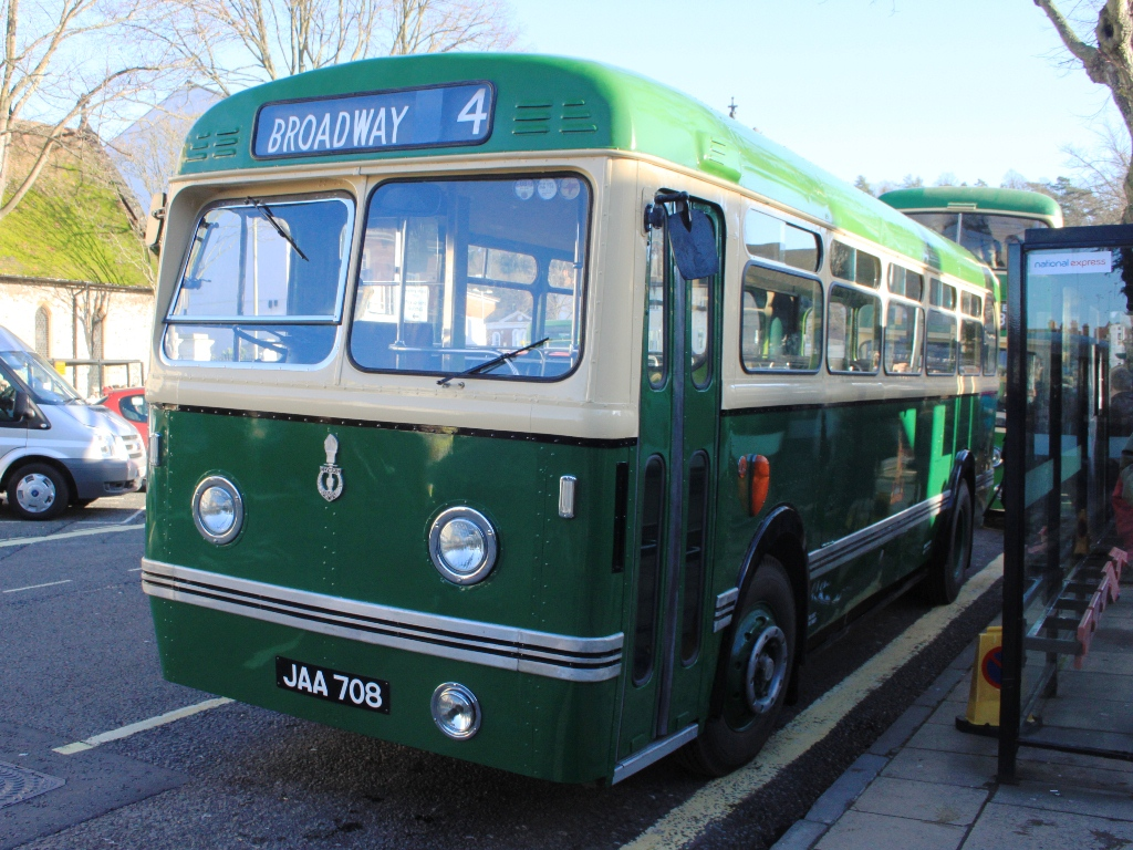 New year's Day 2013 saw the friends of King Alfred unveil its latest restored bus, JAA 708, a rare example of a Leyland Olympic dating from 1950.